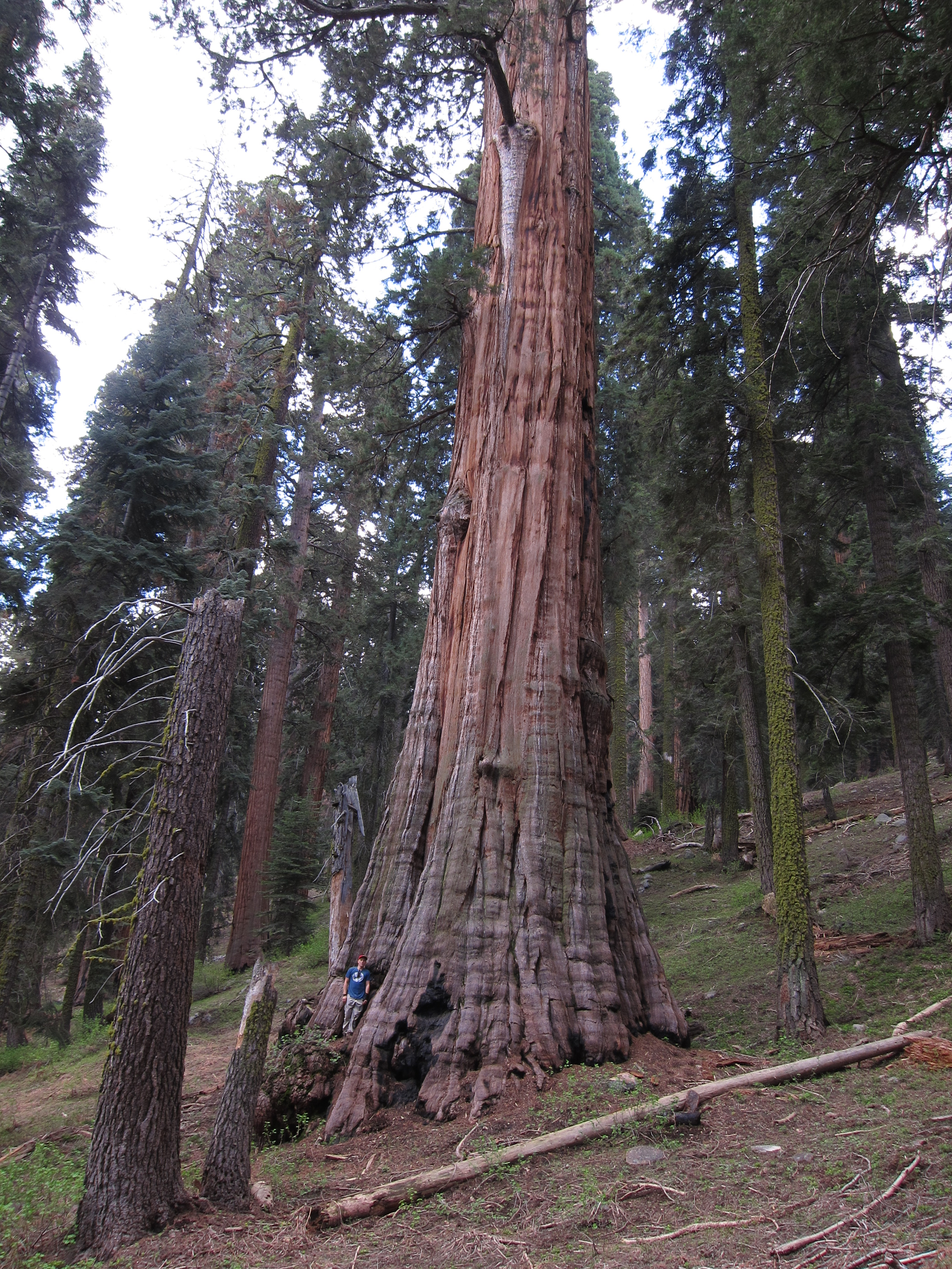 The downhill side of the Floyd Otter tree. You can see how it completely dwarfs Brandon.